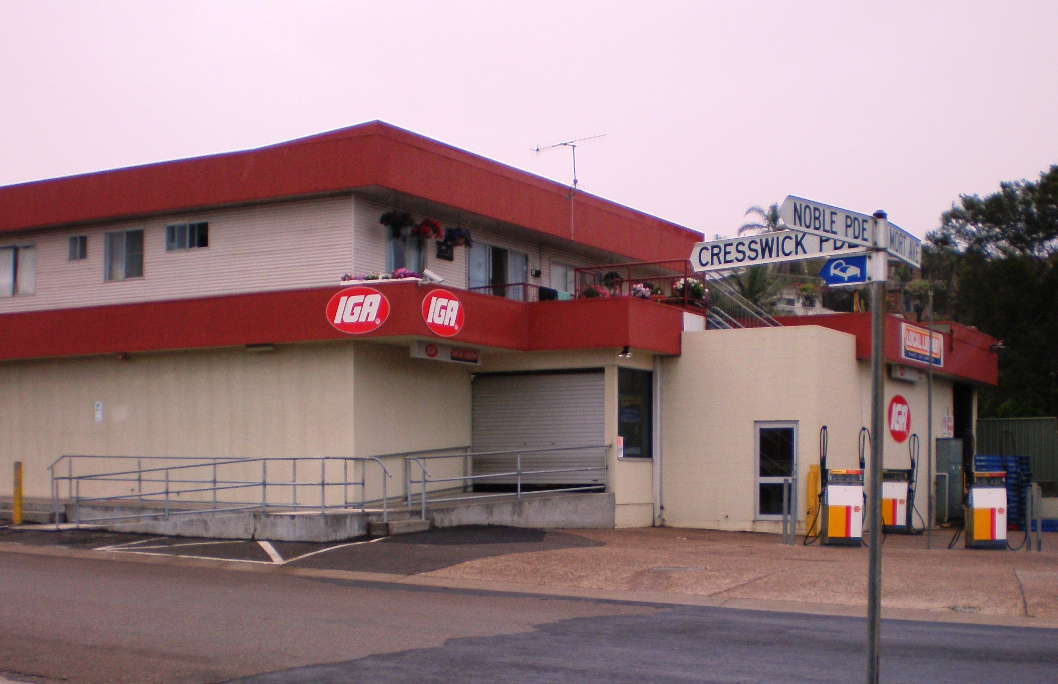 Dalmeny IGA and Shell service station. Taken From corner of Cresswick Pde & Noble Pde. Camera used Olympus FE190